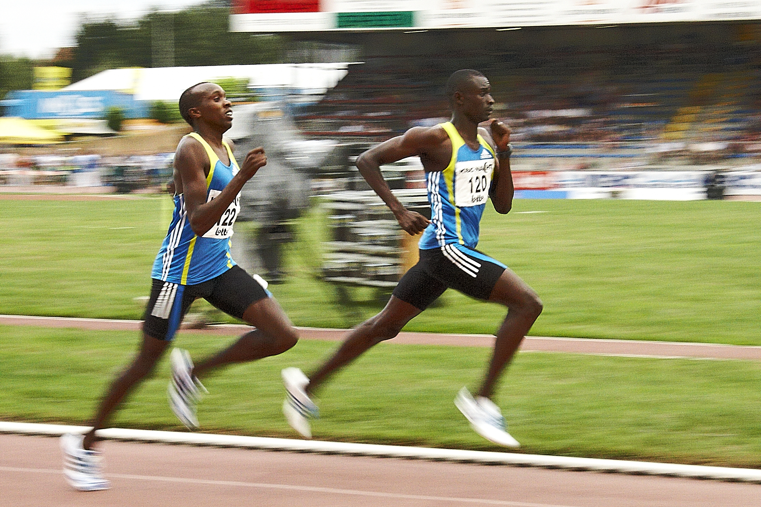 800 m 1:41:51 David Rudisha KBC Night of Athletics 2010 in Heusden-zolder, Belgium